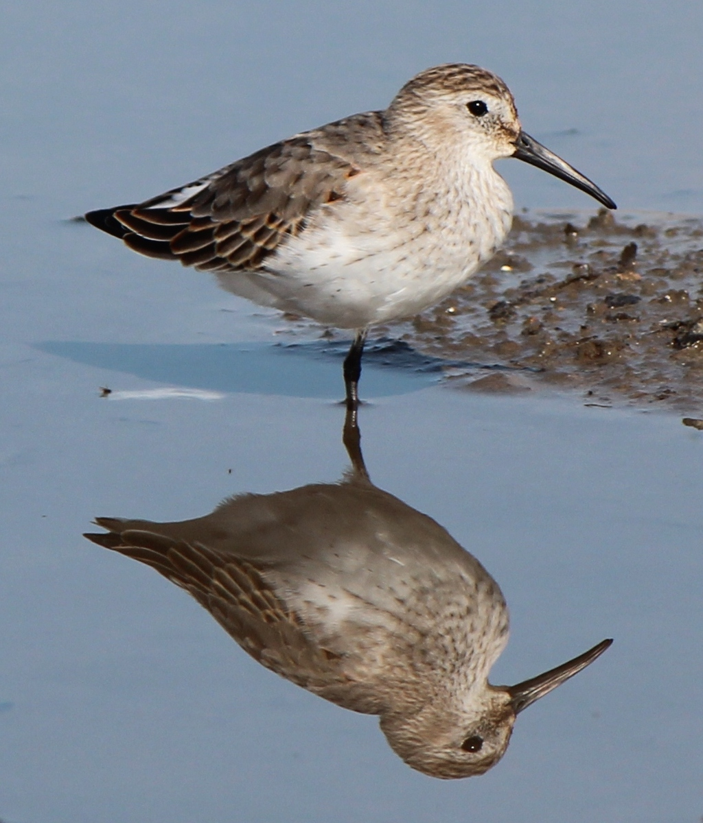 Calidris alpina sakhalina (Dunlin), in Japan.